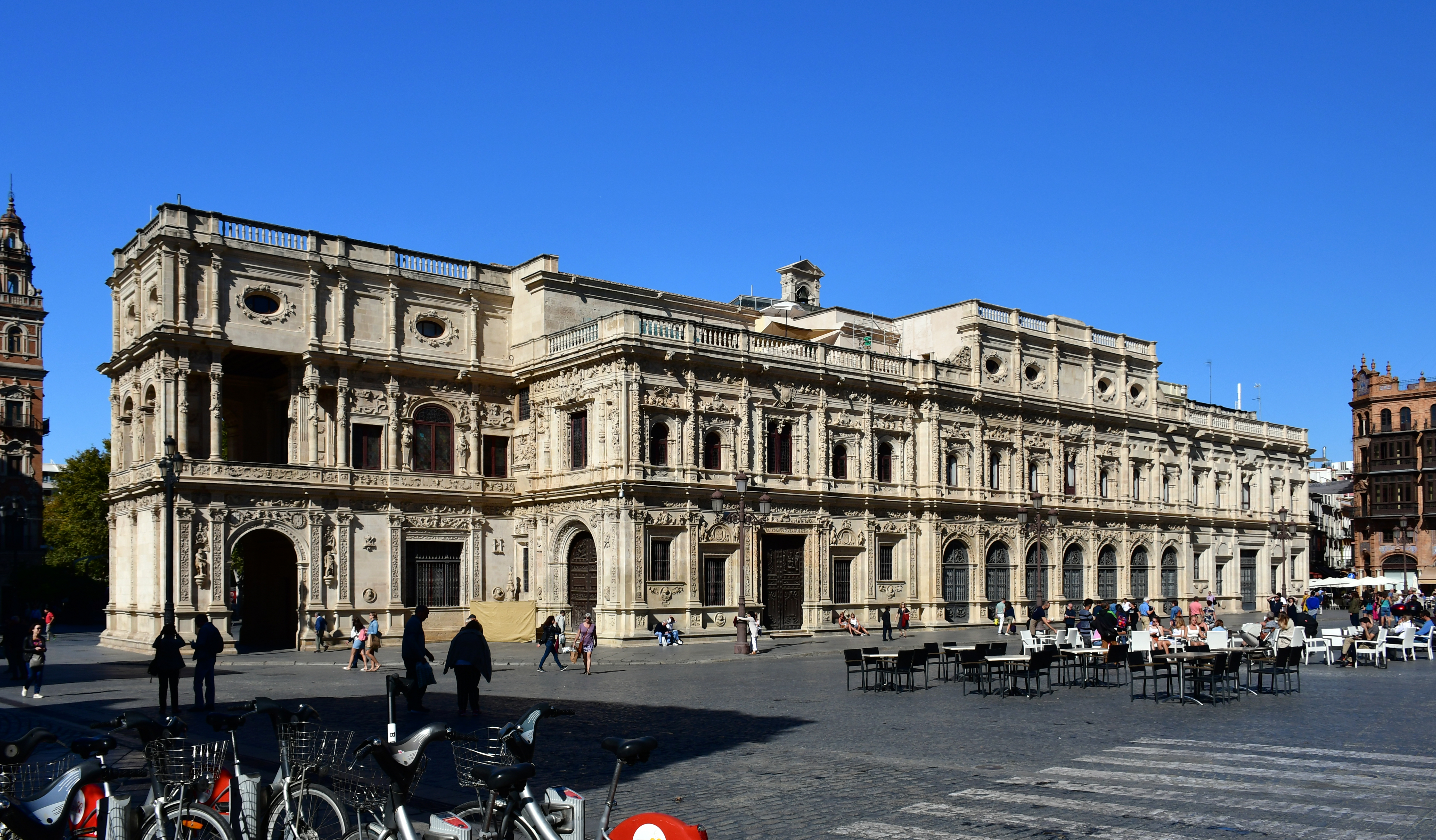 Seville City Hall (Andalusia, Spain), currently home of the city's government.